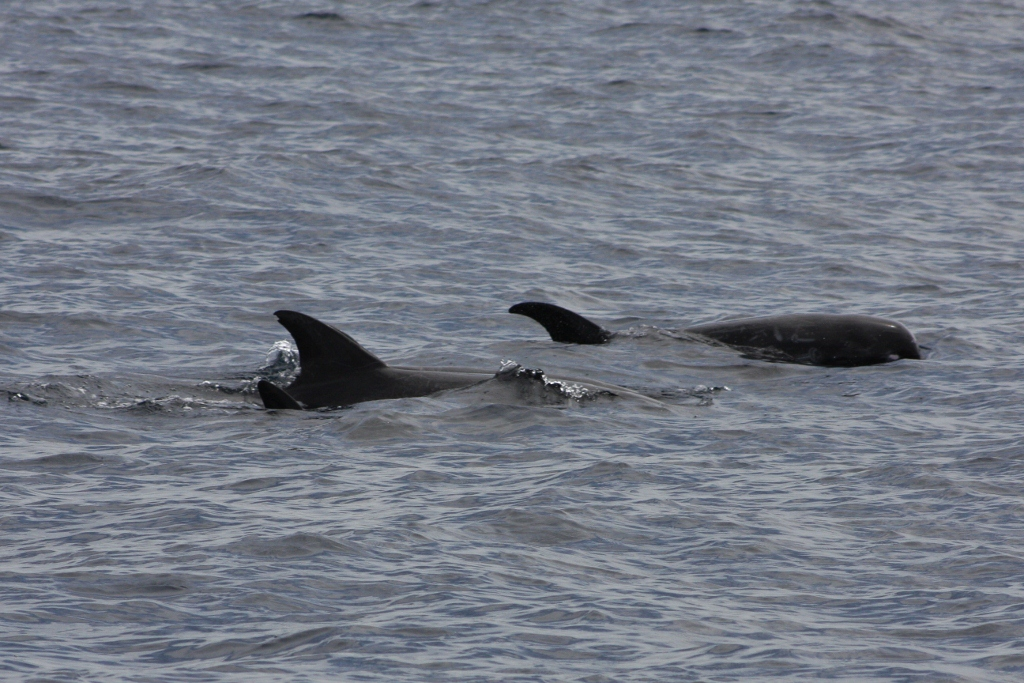 Found between Balicasag Island and Alona Beach, they only stayed on the surface for a minute or so before doing a deep dive. We waited around for 20 mins but we didn't see them again.